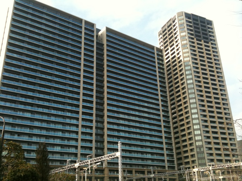 Catherina Mita, Tokyo